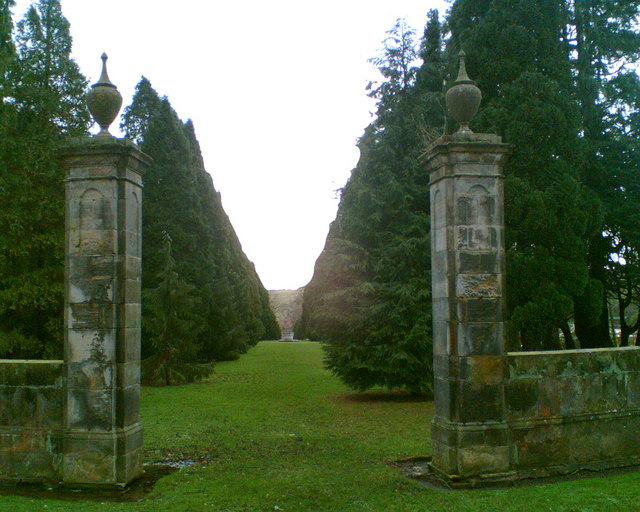 Craigtoun Park Arboretum — Fife, Scotland.